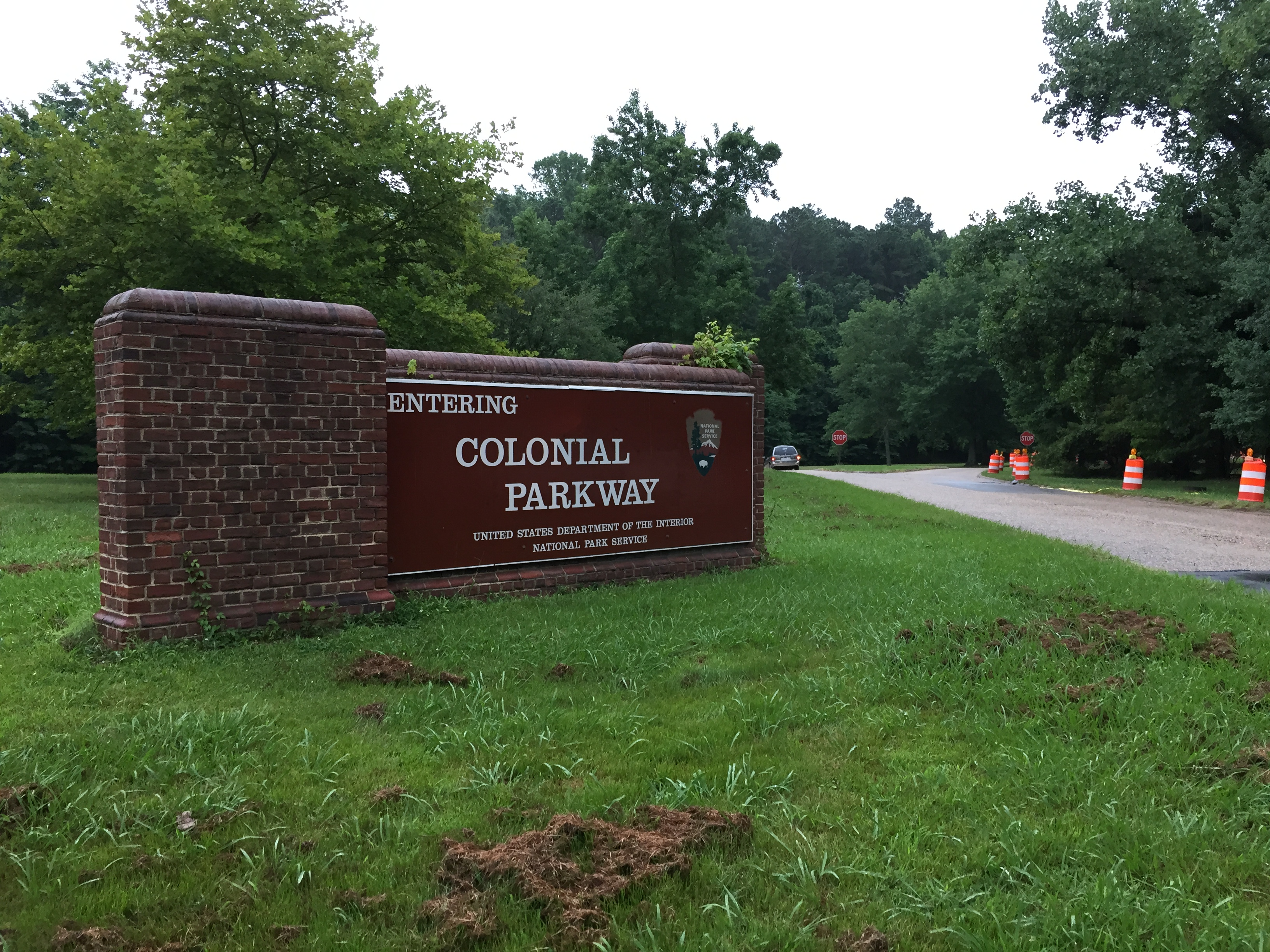 View south along Virginia State Route 132Y (Visitor Center Drive) at the junction with the Colonial Parkway in Williamsburg, Virginia